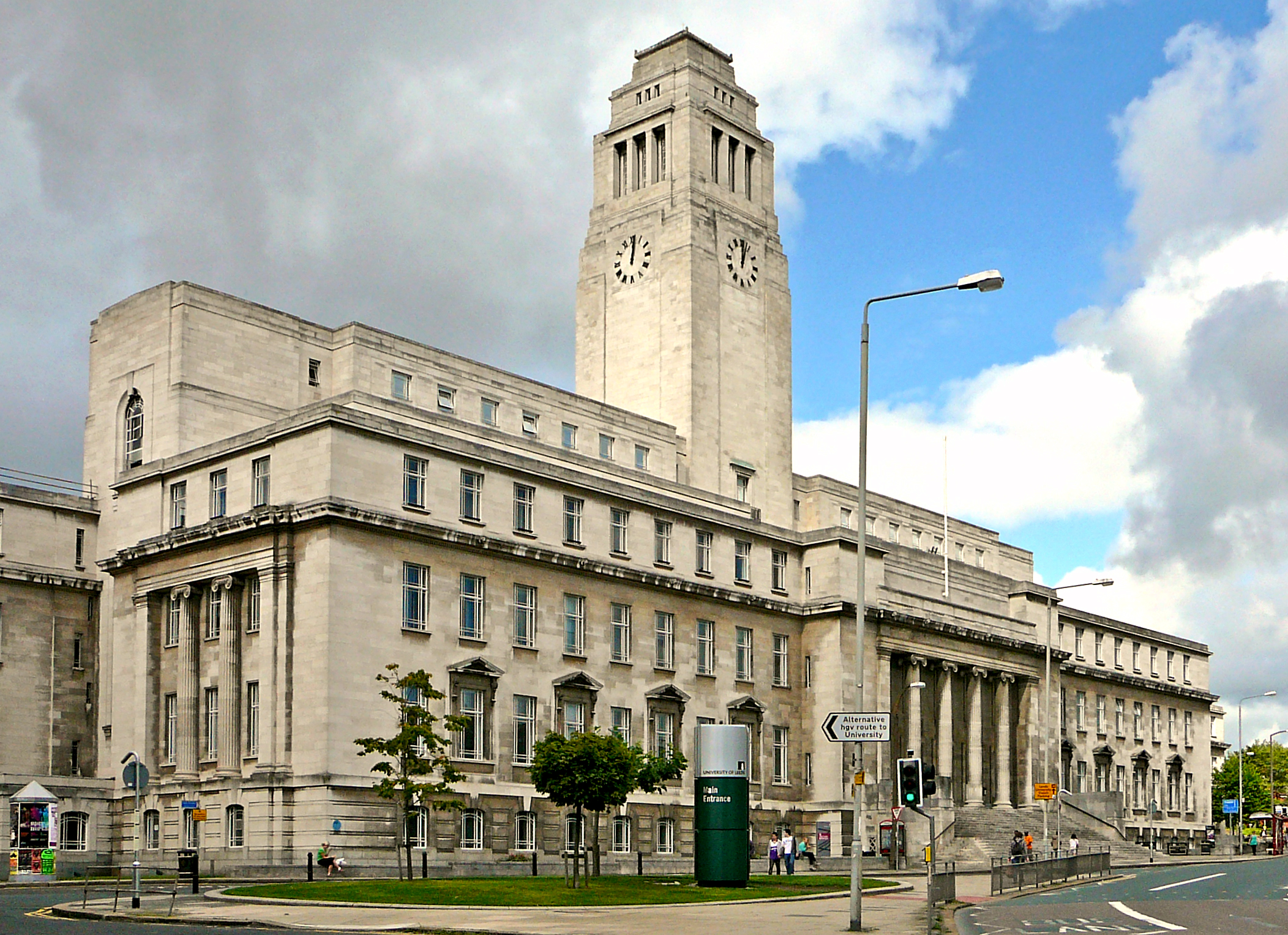 Parkinson Building, Leeds University, Leeds, England.